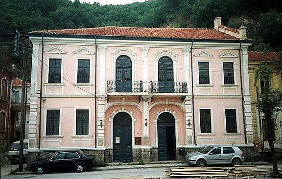 Outside view of the Museum, image from the Museum of Contemporary Art, Florina, West Macedonia, Greece